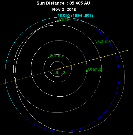 en:1994_JR1 orbit